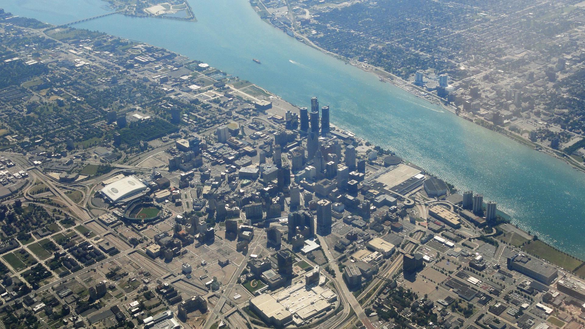 Aerial view of Downtown Detroit, Detroit, Michigan, United States. View from Northwest.